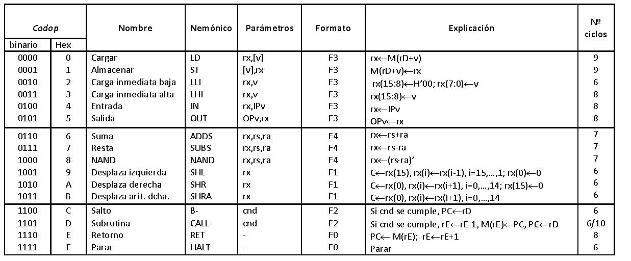 CODE2 instruction set.